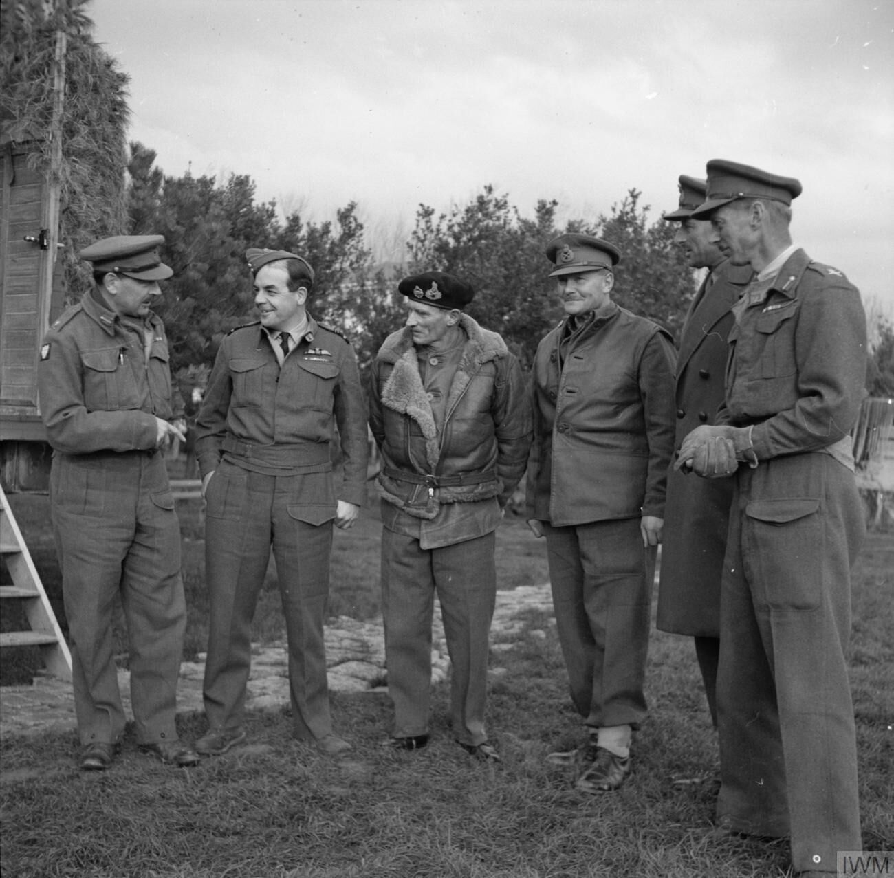 The Campaign in Italy, September-december 1943- the Allied Advance To the Gustav Line- Personalities General Sir Bernard Montgomery with his senior officers at Eighth Army Headquarters at Vasto, shortly before handing over command of the Eighth Army to General Sir Oliver Leese and leaving Italy to prepare for the Normandy invasion in England. Left to right: Major General F de Guingand, Air Vice Marshal H Broadhurst, General Montgomery, General B Freyberg VC, Lieutenant General Allfrey and General Dempsey.